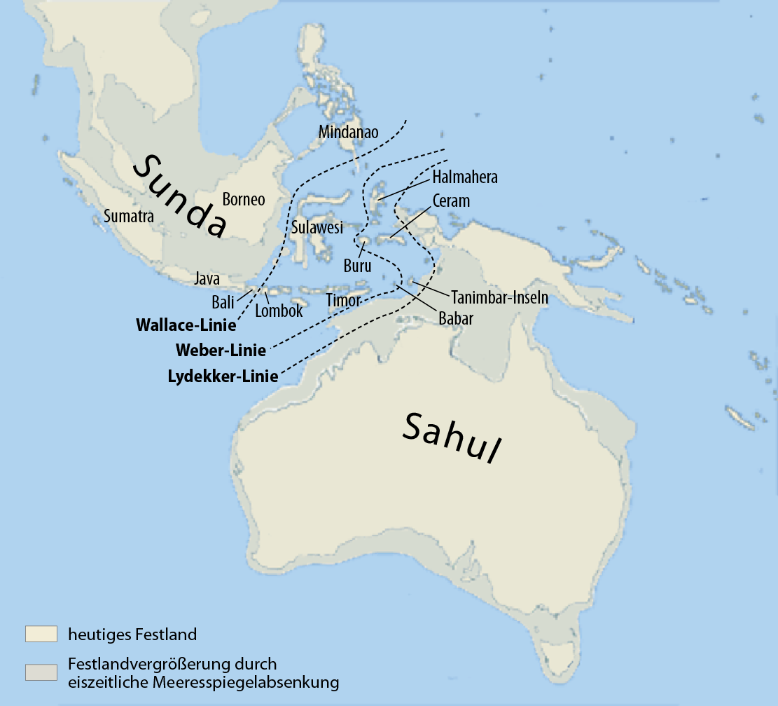 Map of Sunda and Sahul and the Wallace Line, the Lydekker Line and the Weber Linie